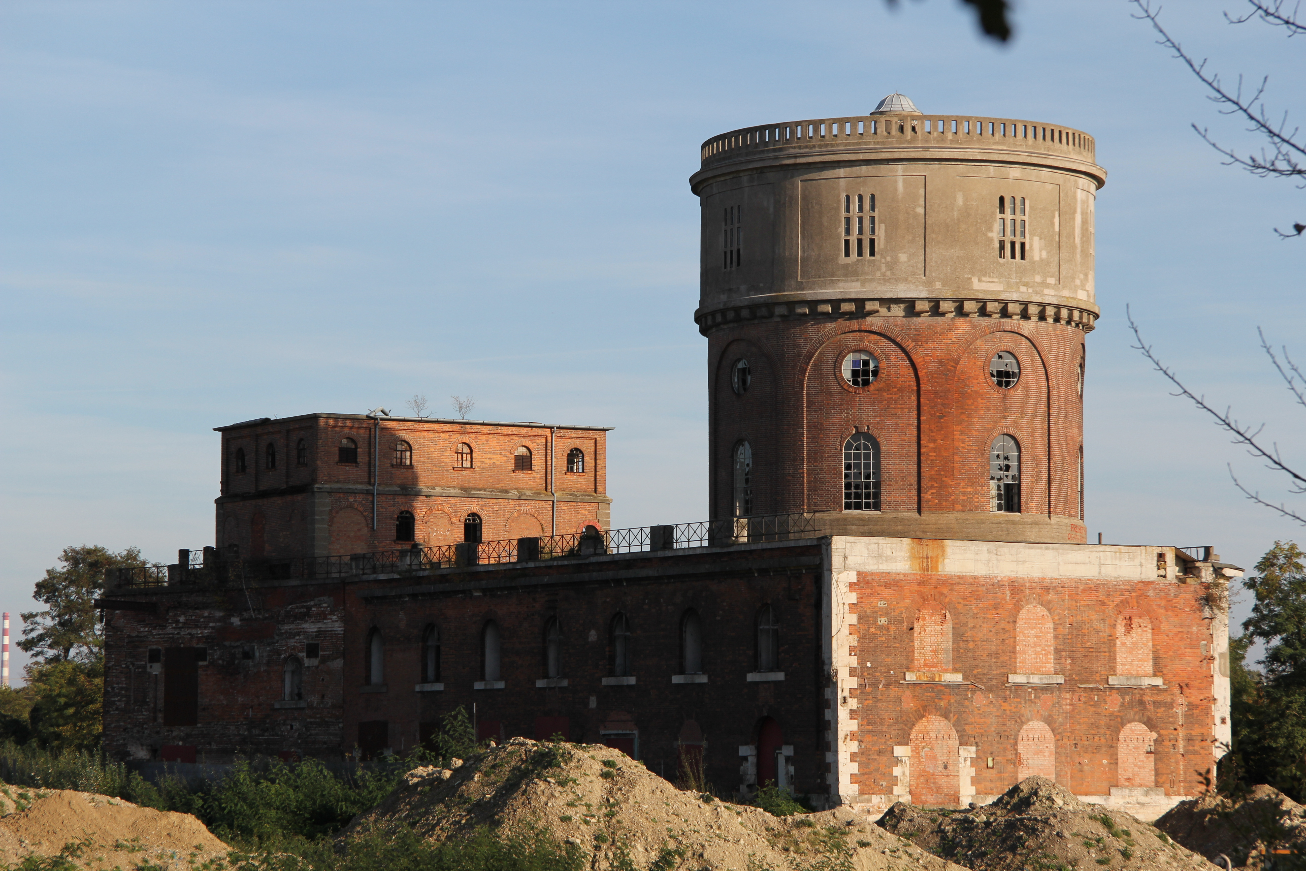 Ingolstadt, Kavalier Dallwigk, from northwest